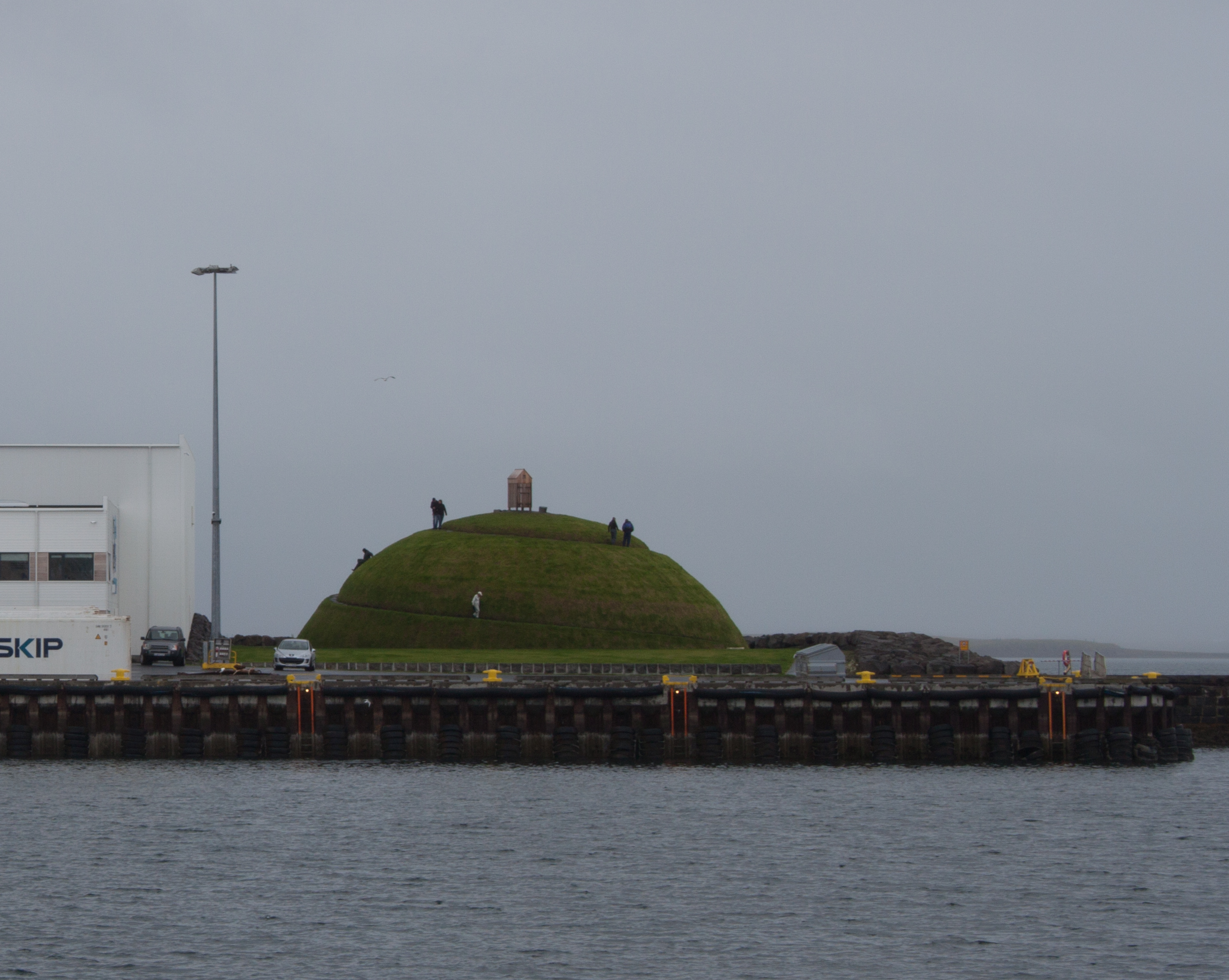 Reykjavík Harbour